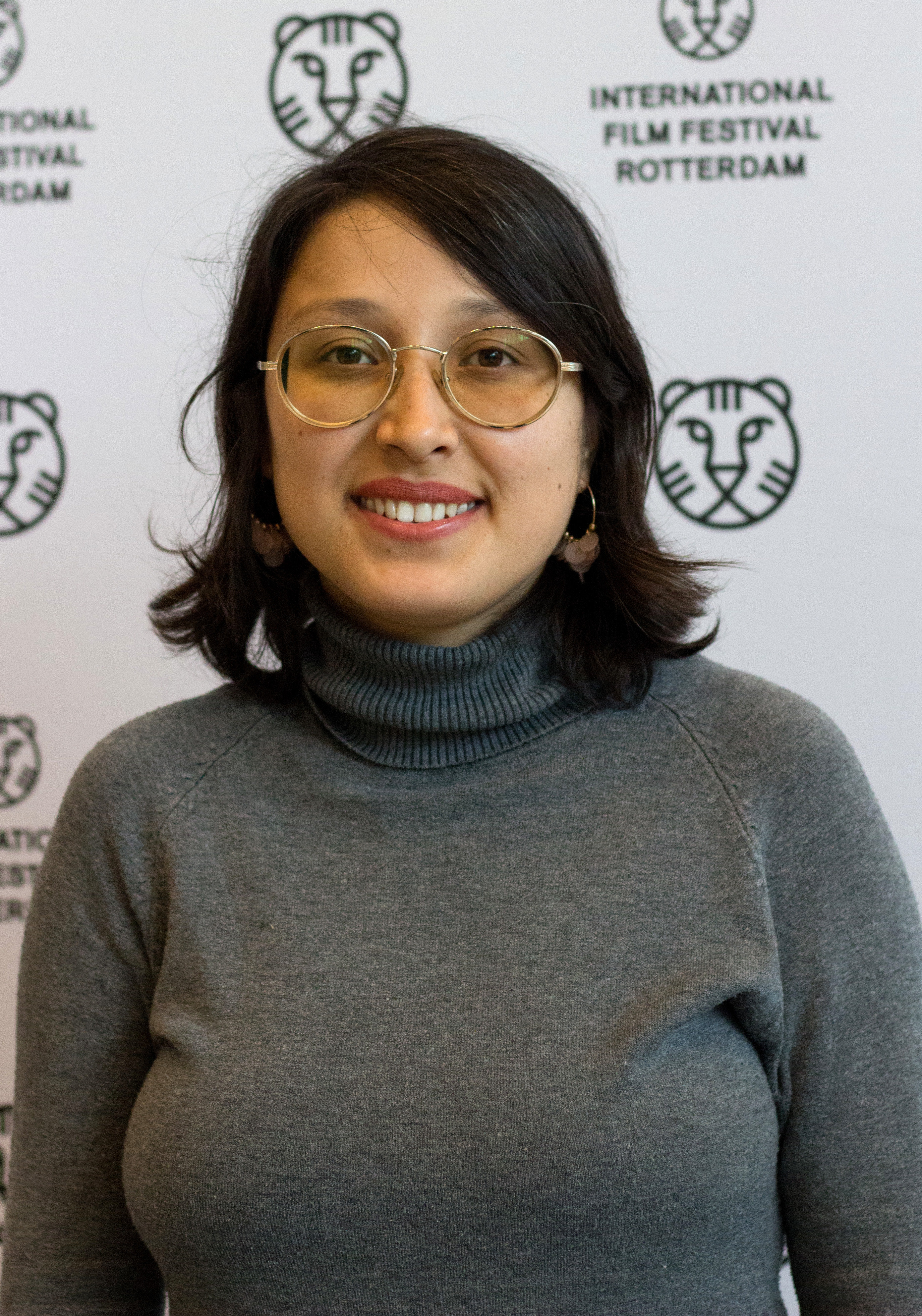 Shahrbanoo Sadat at the screening of "The Orphanage" during the IFFR 2020